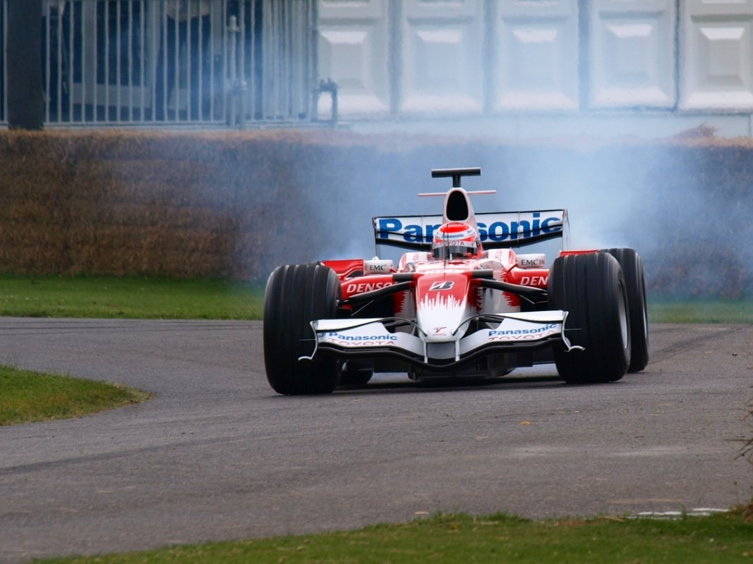 Kamui Kobayashi demonstrating a Toyota TF107 at the 2008 Goodwood Festival of Speed.